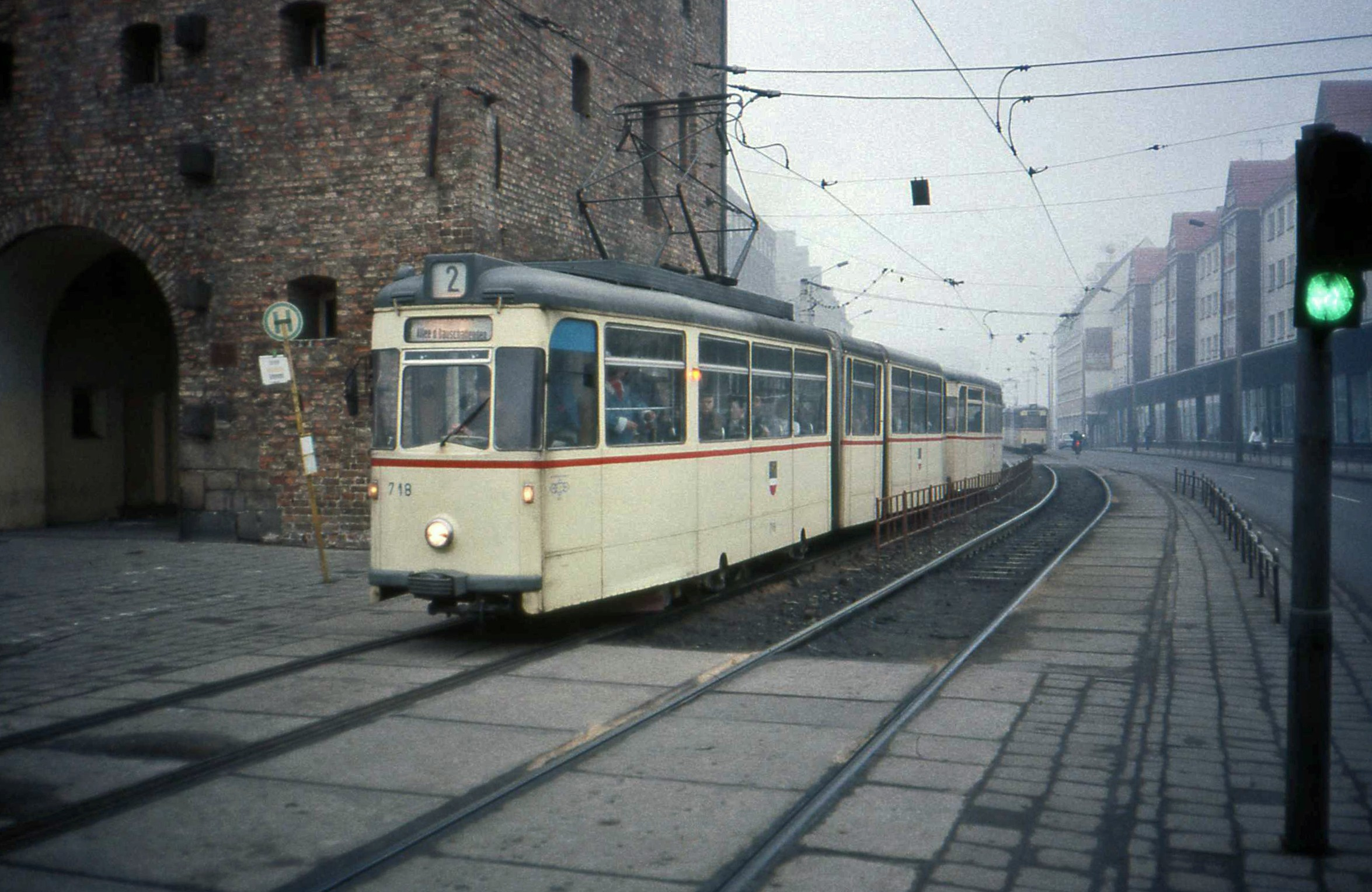 Gotha Gelenkwagen no 718 passing Steintor in Rostock on a very misty January morning.. A G4-65 tram new in 1967, and scrapped in 1995.